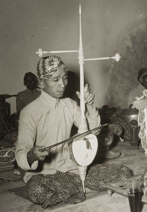 K.P.H. Notoprojo, a famous Indonesian Javanese gamelan and rebab player